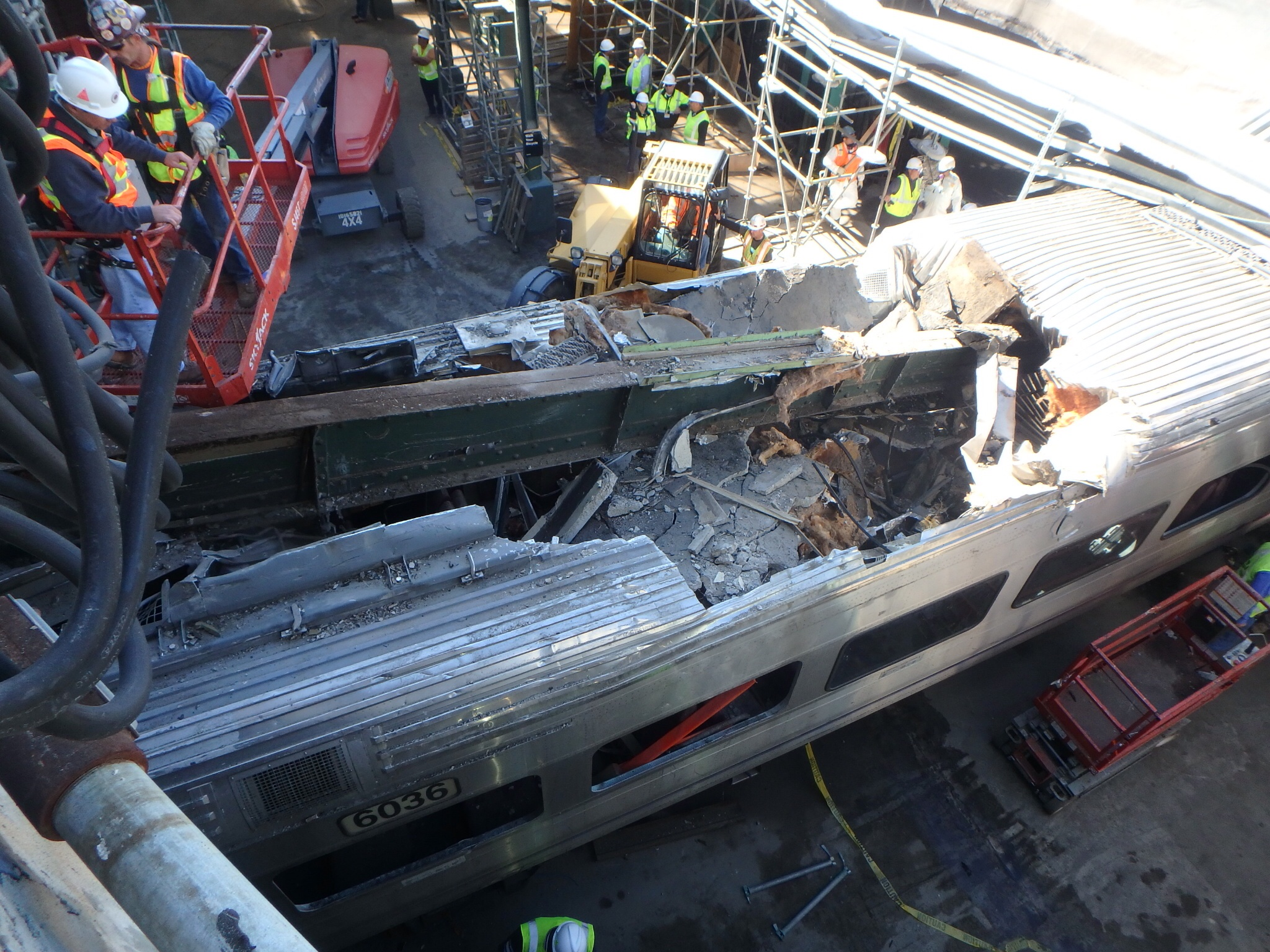 Overhead photograph of the damaged controlling cab car following the accident. A beam in from the station is shown in the front portion of the car.